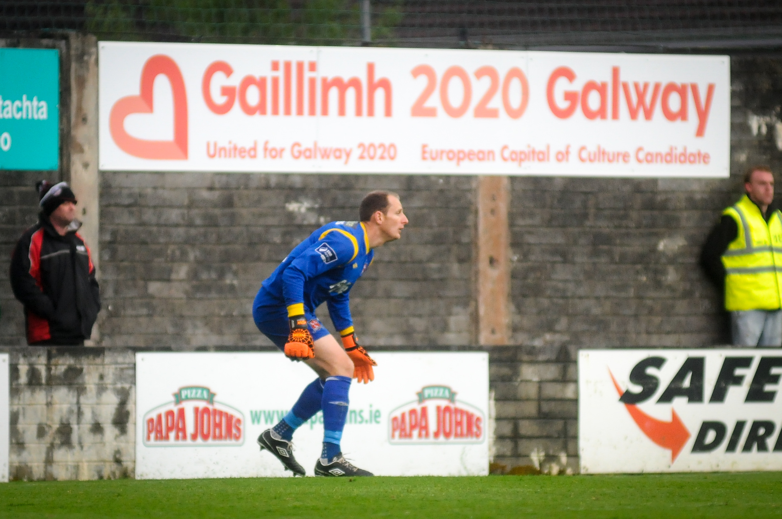 Gary Rogers in action for Dundalk in the 2015 League of Ireland